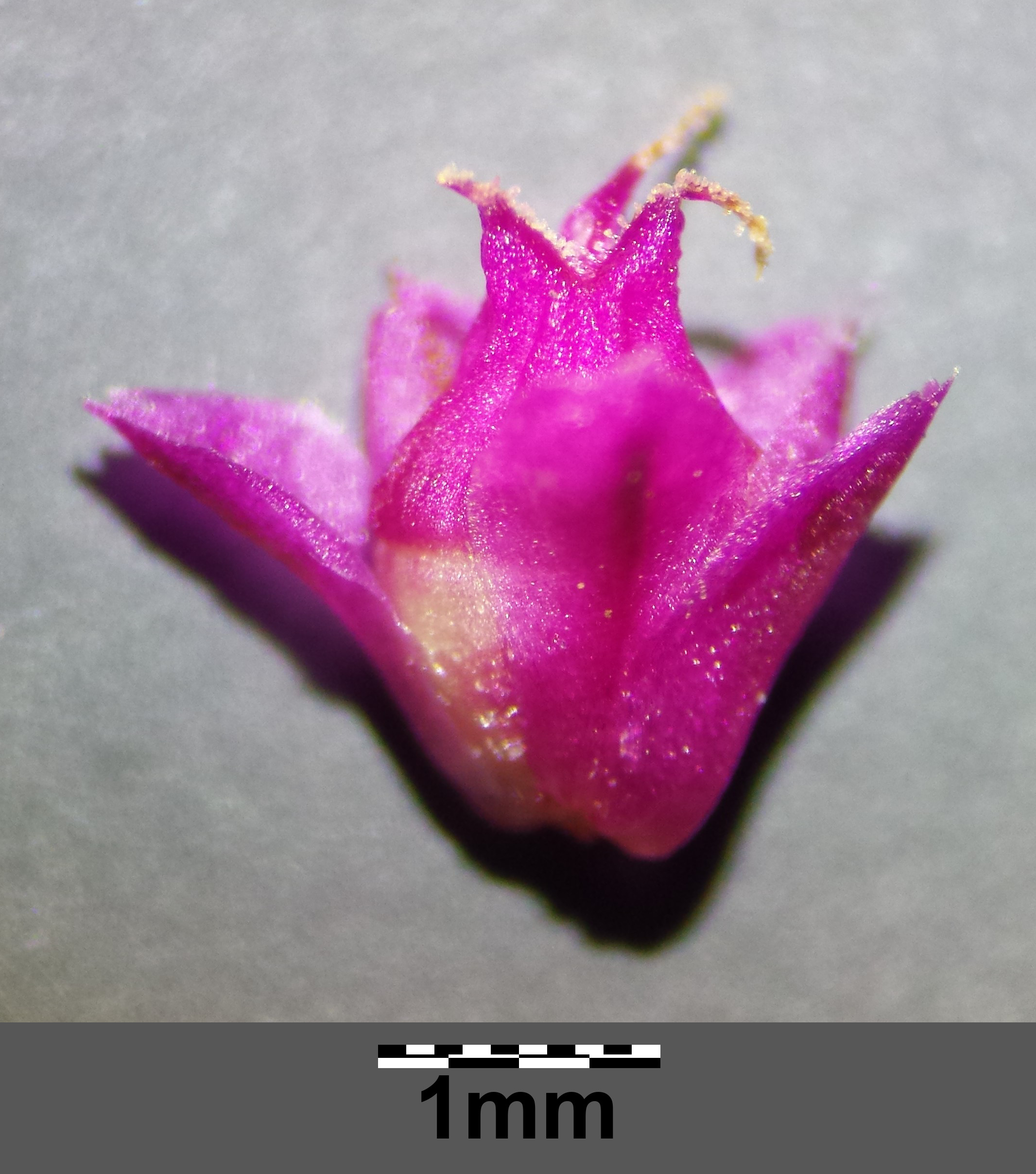 Flower Taxonym: Amaranthus caudatus ss Fischer et al. EfÖLS 2008 ISBN 978-3-85474-187-9 Location: to the south of Schleinbach, district Mistelbach, Lower Austria - ca. 275 m a.s.l. Habitat: field with pumpkins